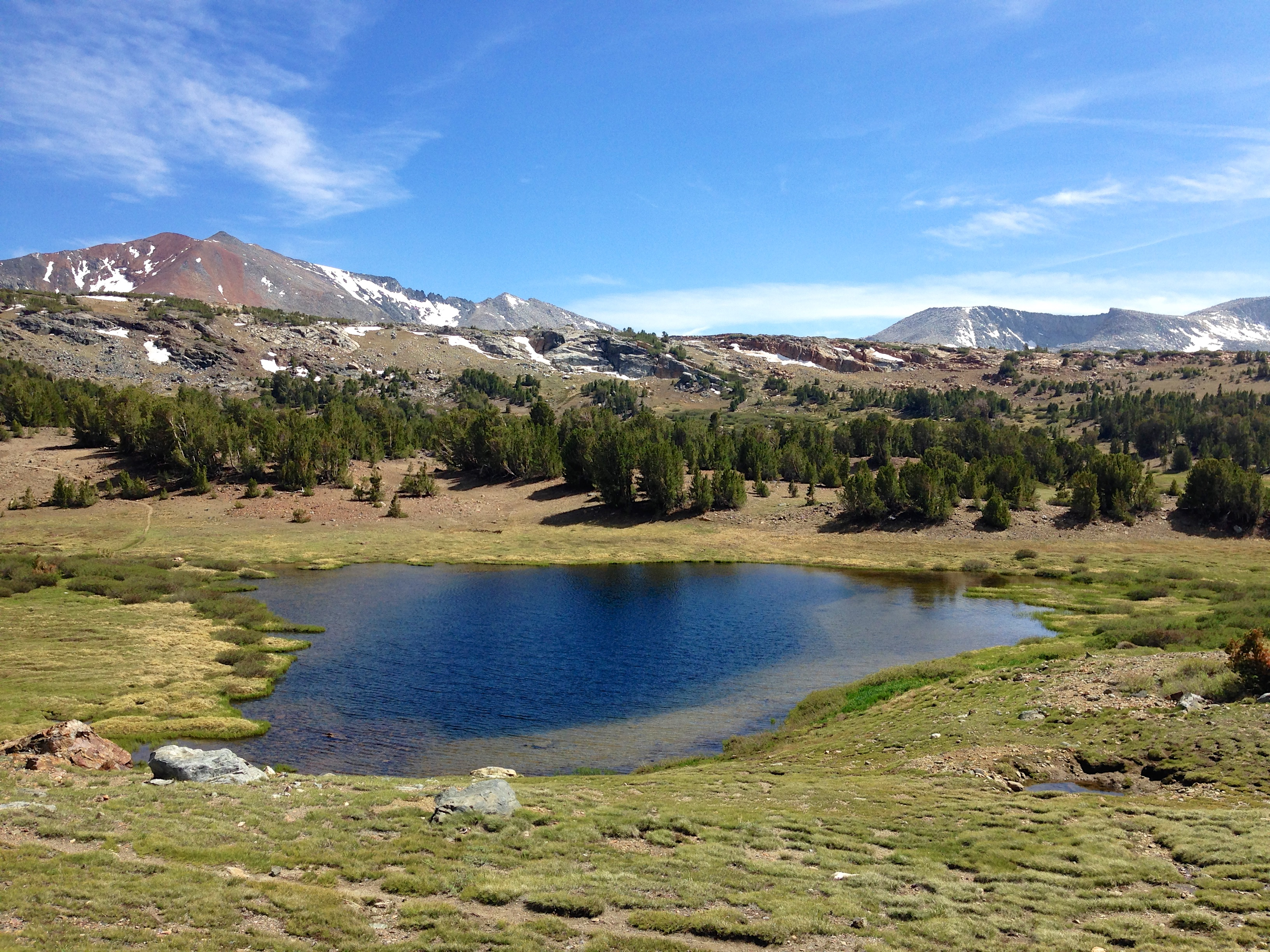 Mono Pass Trail Yosemite National Park Tuolumne County, CA